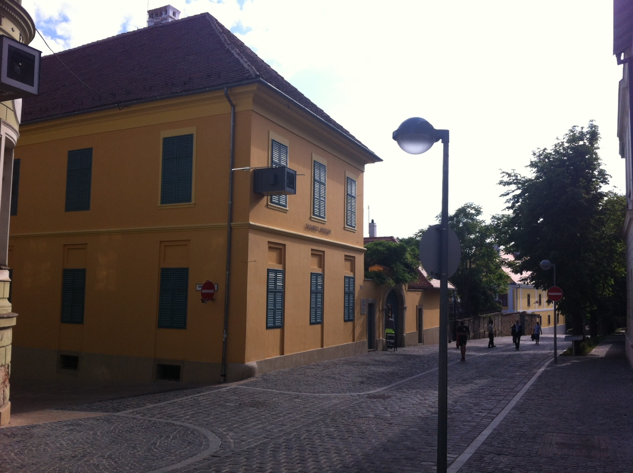 Kaptalan street, Pécs, Hungary